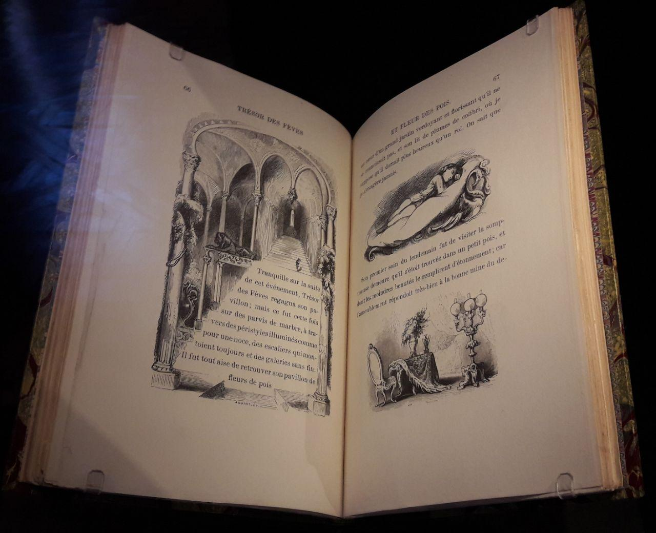 Photography of one of the two still existing book of 1953 edition of "Trésor des fèves et Fleur des pois [Texte imprimé] ; suivi de : Le Génie Bonhomme. Histoire du chien de Brisquet / par Charles Nodier ; Vignettes par Tony Johannot" by Charles Naudier, pictures, by Tony Johannot.